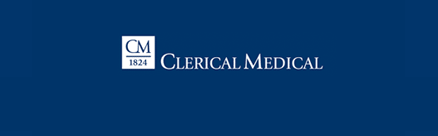 Official Logo of Clerical Medical Plc